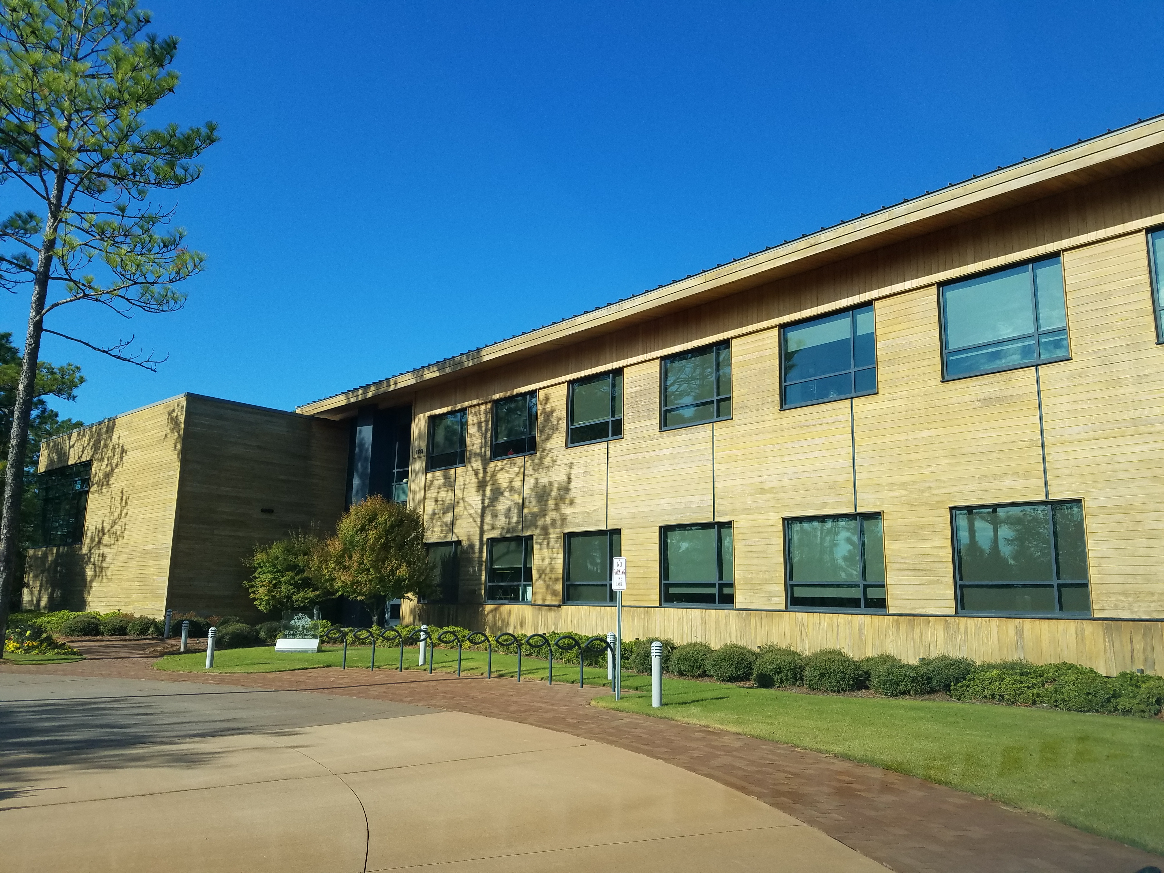 Live Oak Bank headquarters in Wilmington, North Carolina